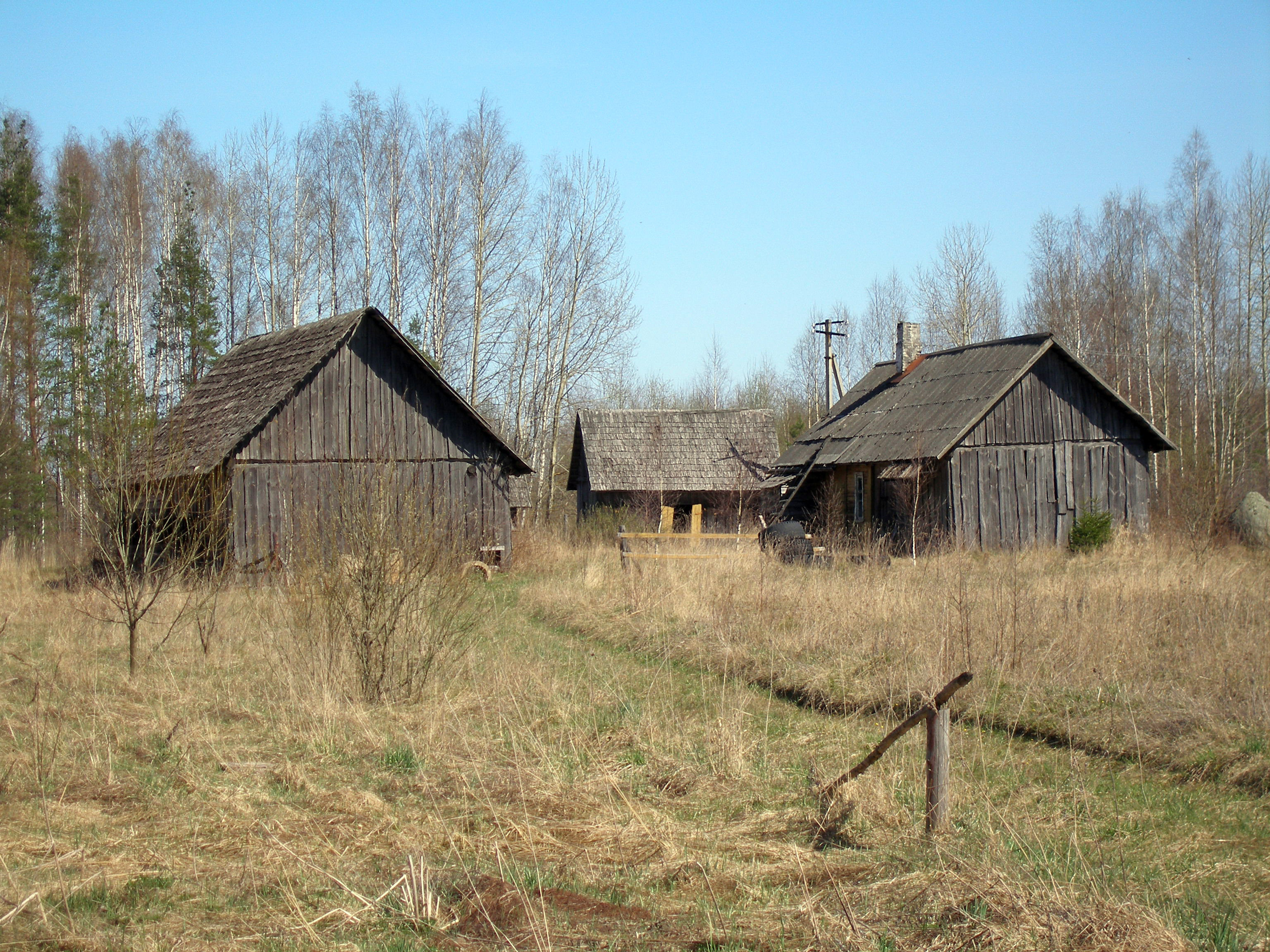 A small disused farmstead in Kundruse near Saatse, in Setumaa region (Põlva County), Southeast Estonia.